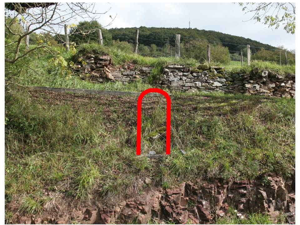 road between Leitza and Berasategi, border between Navarre and Gipuzkoa; the site where two memorial stones to Joaquín Muruzabal, considered the first fallen requeté of the Spanish Civil War, used to stand. The first one, erected in 1937 and photgraphed here, was destroyed by unknown perpetrators in late 1990s; the copy, erected shortly afterwards, was destroyed in the early 21st century. The corpse of Muruzabal has been moved to his native San Martin de Unx on May 19, 1963